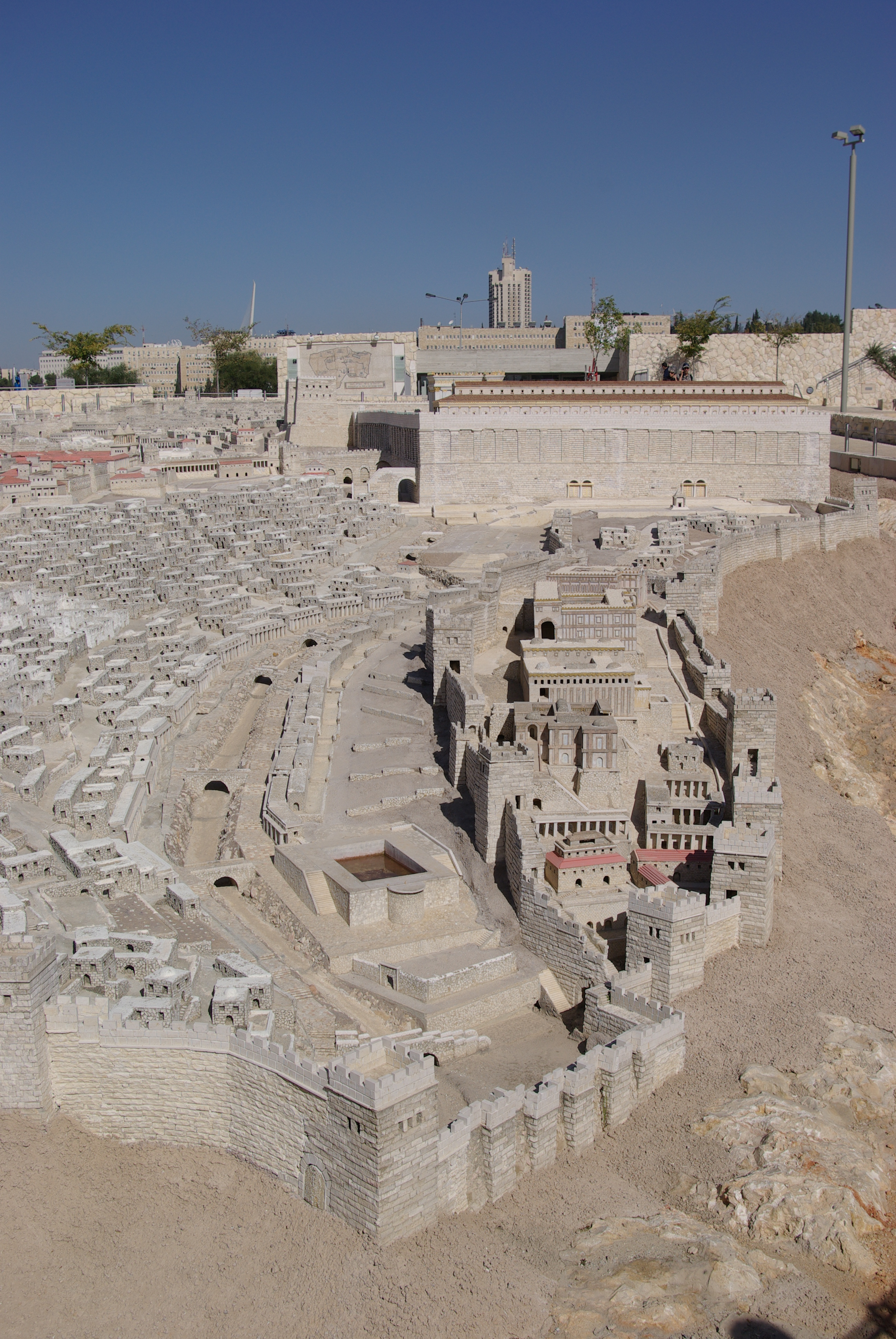 Jerusalem Model, The city of David, the Pool of Siloam and the southern wall of Mount Moriah